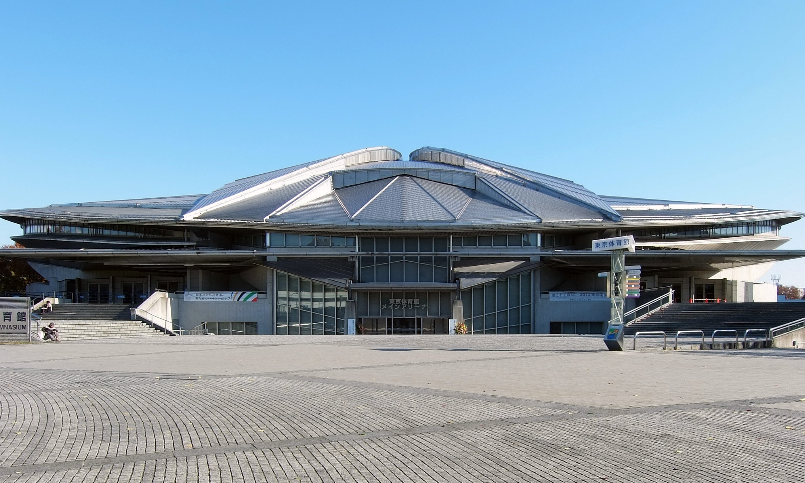 Tokyo Metropolitan Gymnasium, at Sendagaya Tokyo Japan, design by Fumihiko Maki in 1990.